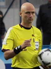 Sergei Karasev refereeing a Russian Premier League game between FC Volga Nizhny Novgorod and FC Mordovia Saransk.